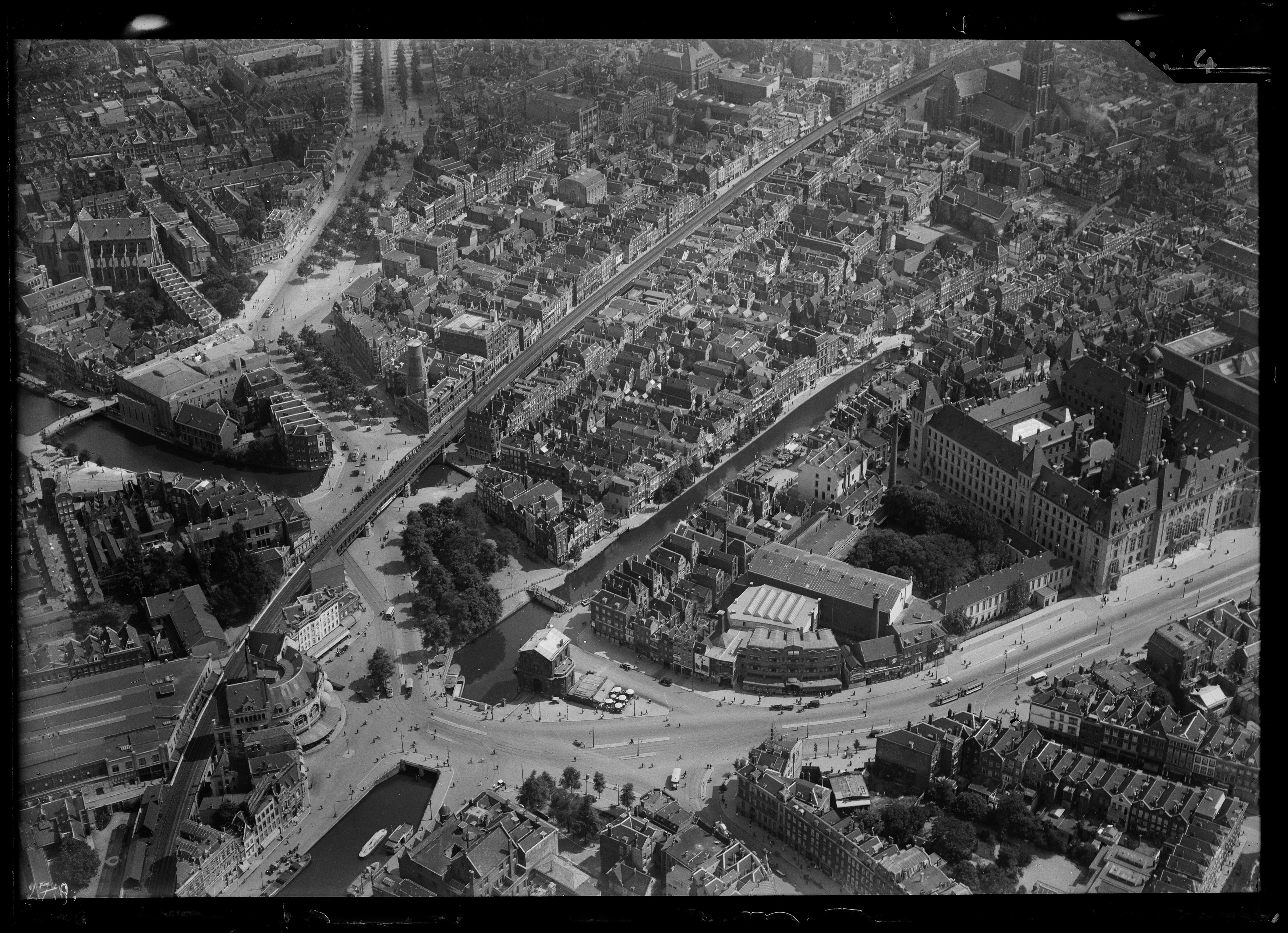 Aerial photograph of Rotterdam, The Netherlands. City hall, Rotterdam.